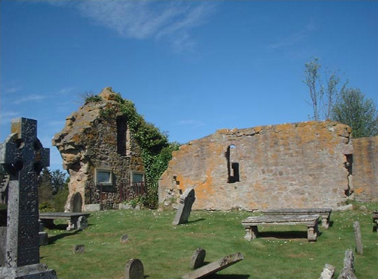 Saint Duthus Chapel, Tain. On the way to the Golf Club, just past the car park for the Links play area is the St. Duthac Old Burial Grounds. Leave your car in the car park and take some time out to see the old ruined church.